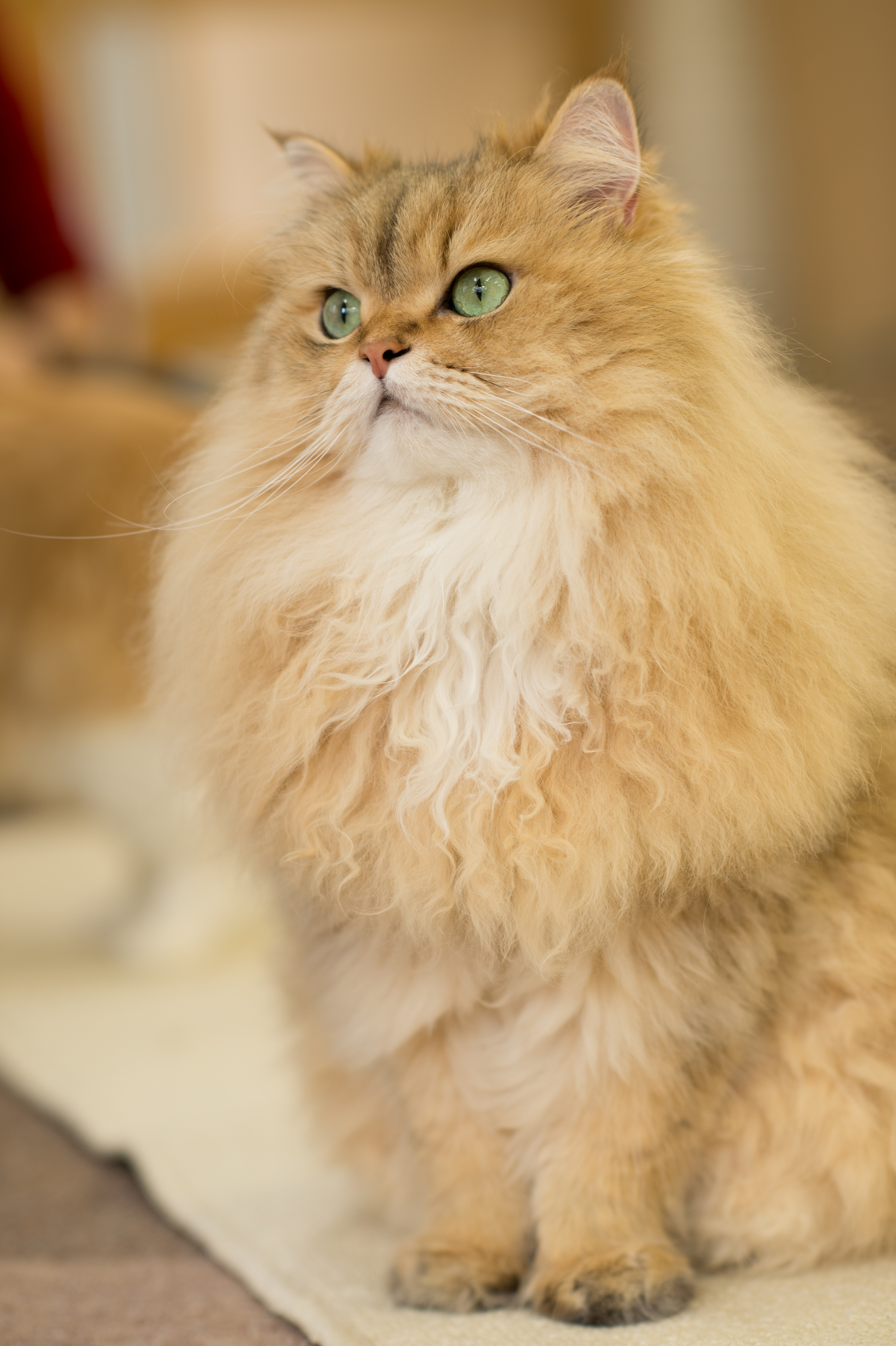 How fluffy! What a beautiful eyes! About this cat: Name: Kuririn Gender: Male Kind: Persian